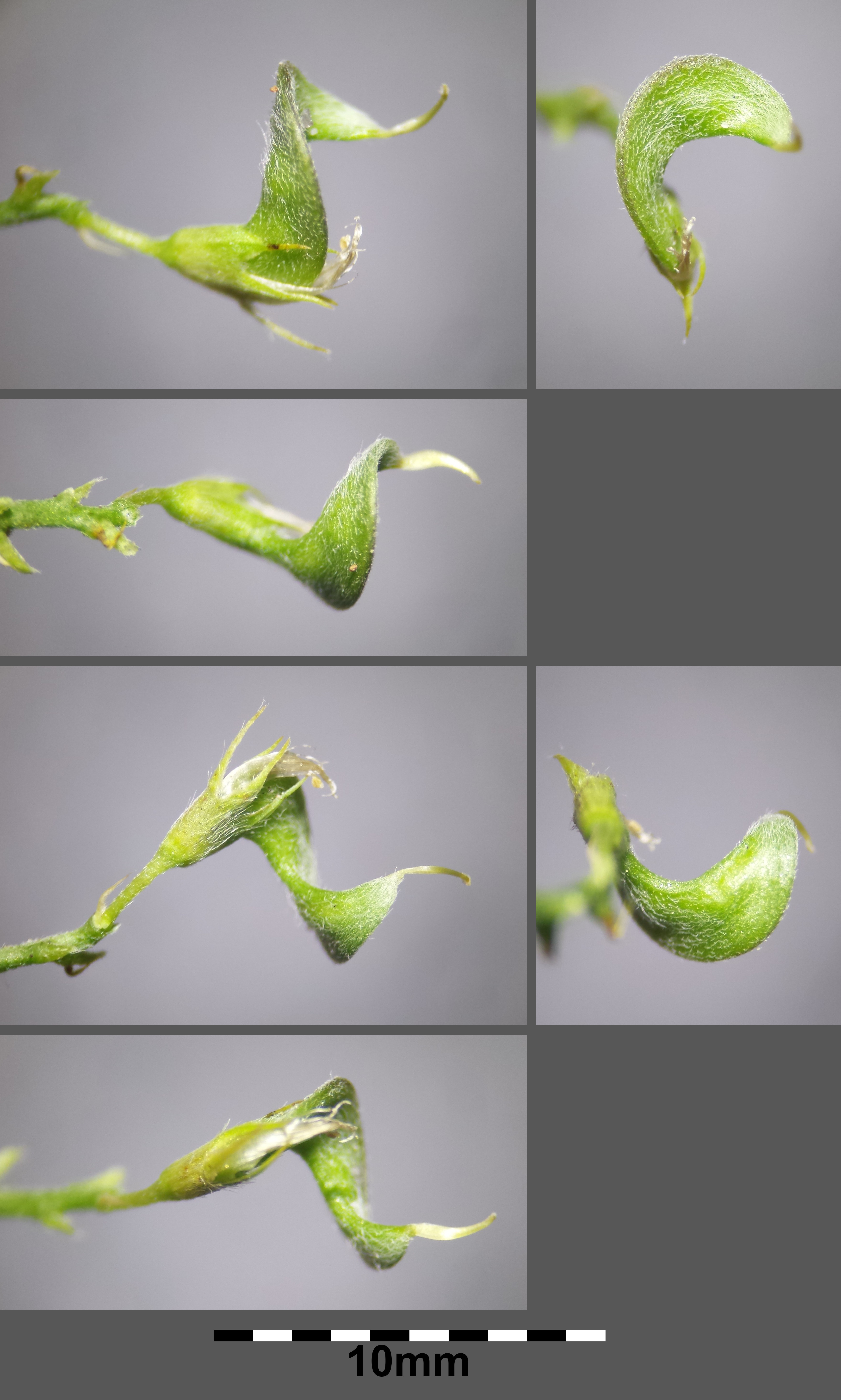 Fruit Taxonym: Medicago falcata × M. sativa ss Fischer et al. EfÖLS 2008 ISBN 978-3-85474-187-9 Location: Floridsdorf rail station, Vienna-Floridsdorf - ca. 160 m a.s.l. Habitat: ruderal area